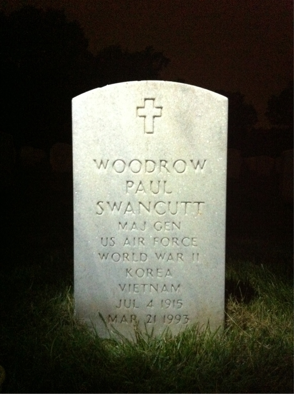 Grave of Woodrow Swancutt at Arlington National Cemetery